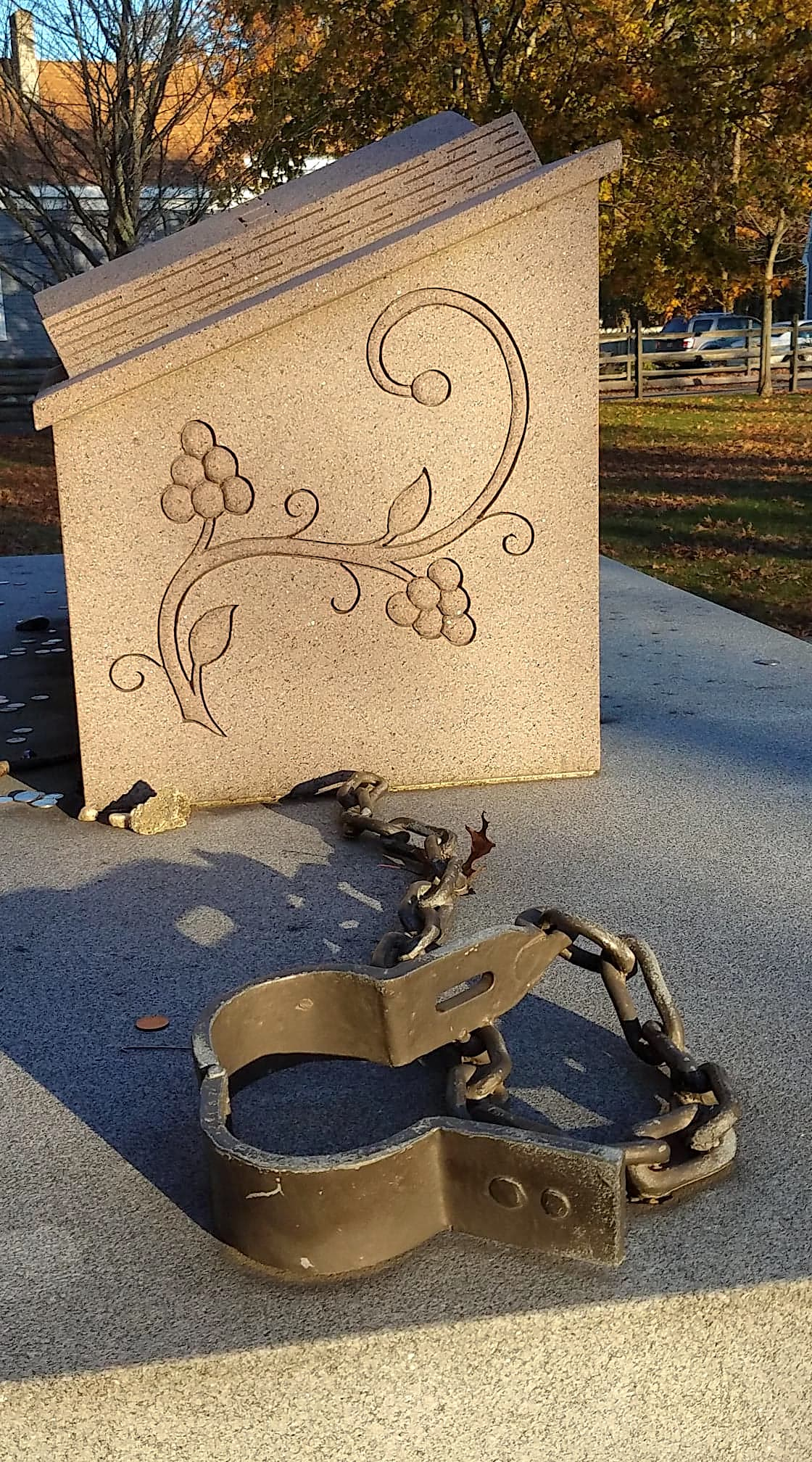 Part of the memorial for the victims of the 1692 witchcraft trials, Danvers, Massachusetts; symbolic chains